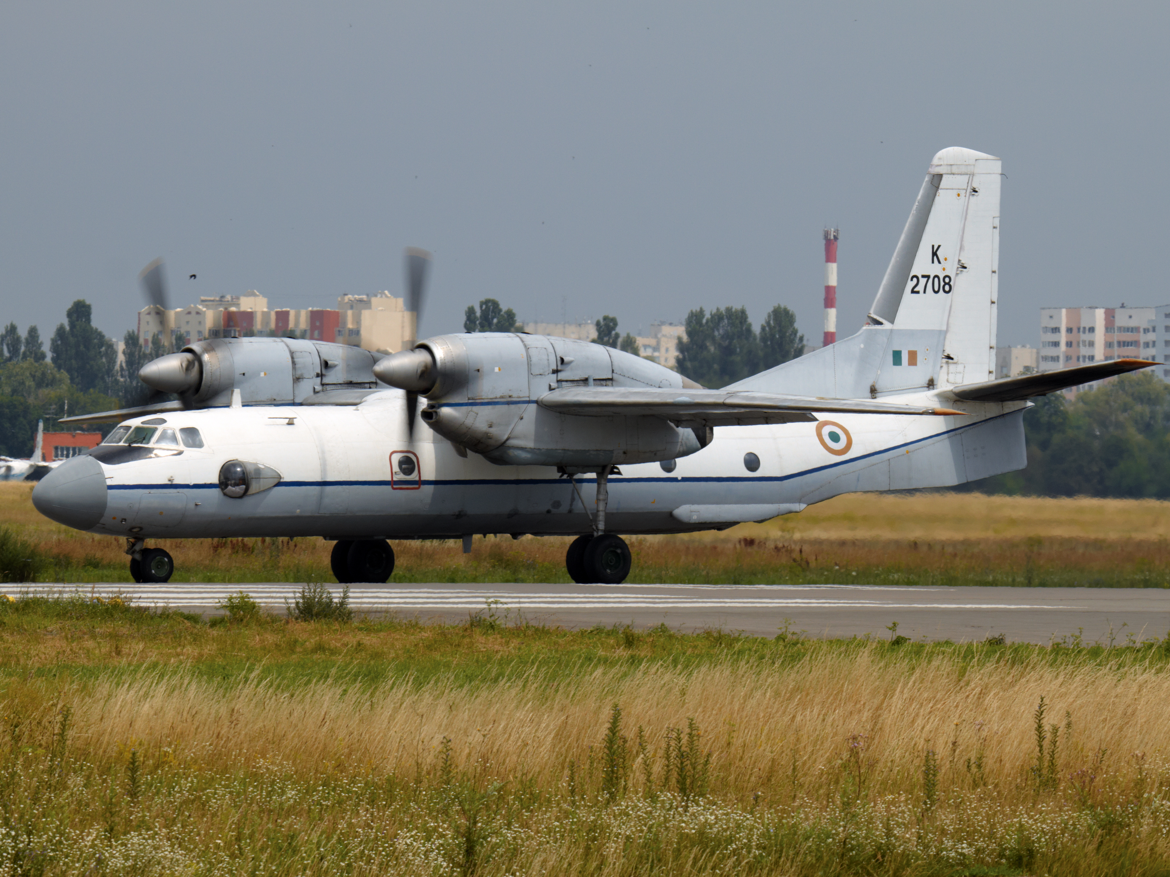 Indian Air Force Antonov An-32